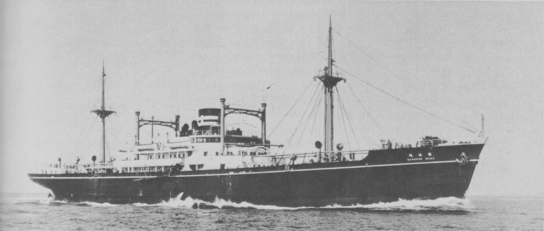 O.S.K. Line "Bangkok Maru", Auxiliary cruisers of the Imperial Japanese Navy.